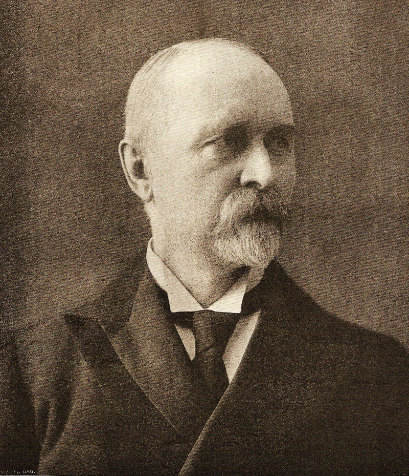 Swedish industrialist Wilhelm Tham (1839-1911).